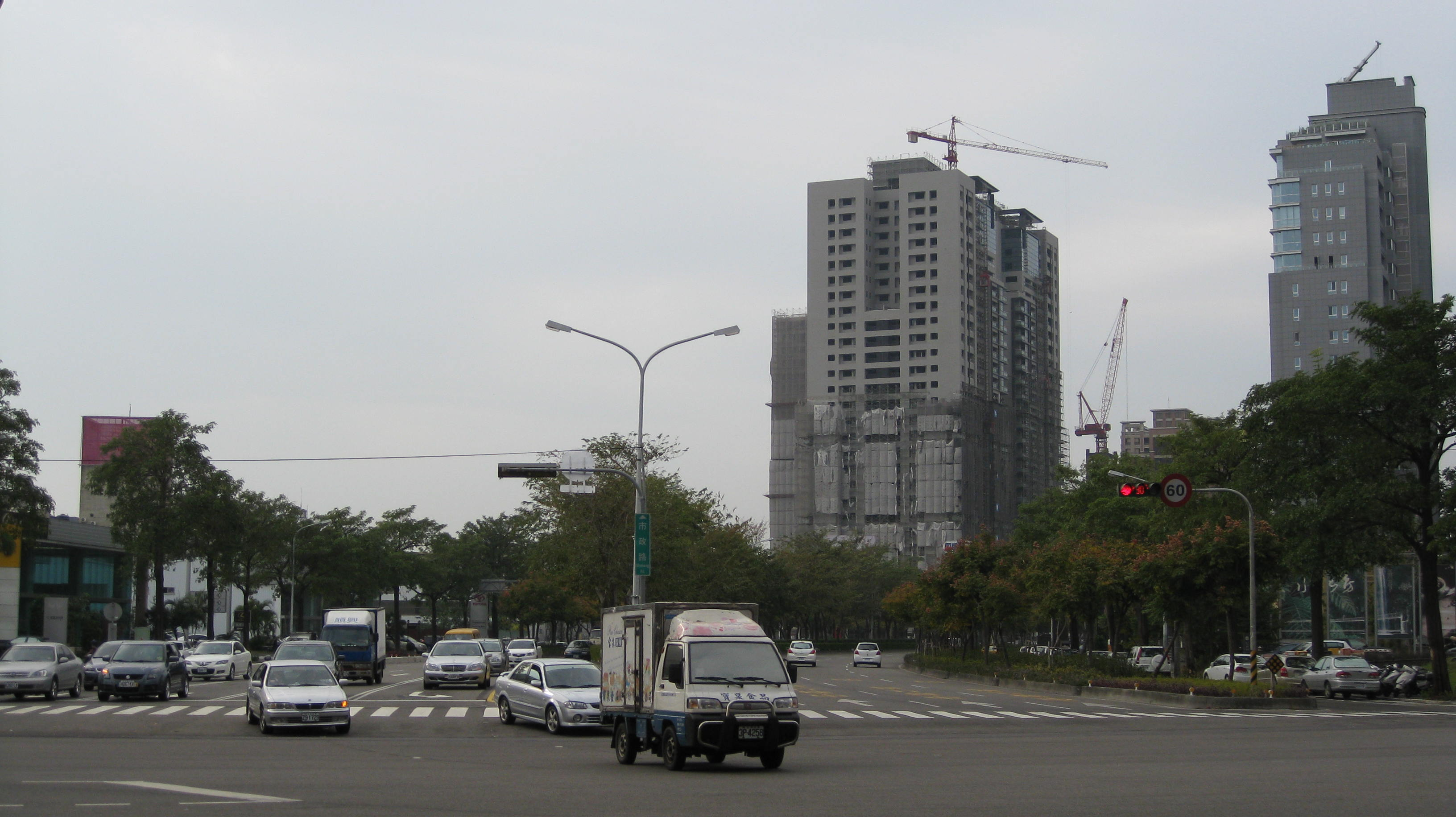 Shijheng Road through the 7th land consolidation area in Taichung,seen from Wenshin Road.